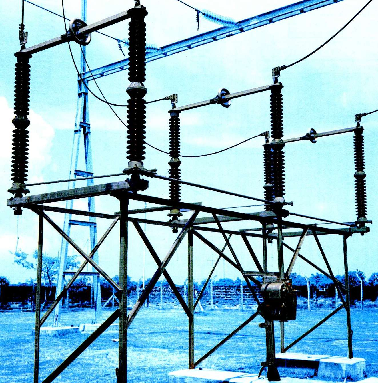 High-voltage disconnector